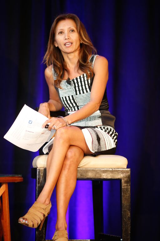 Bambi Francisco @ Vator Splash LA 2015